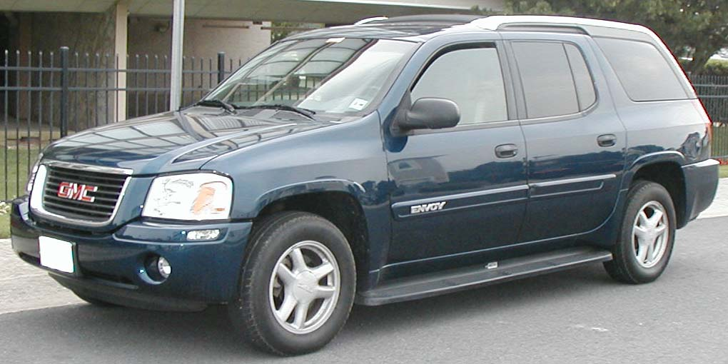 2003-2005 GMC Envoy XUV photographed in USA.